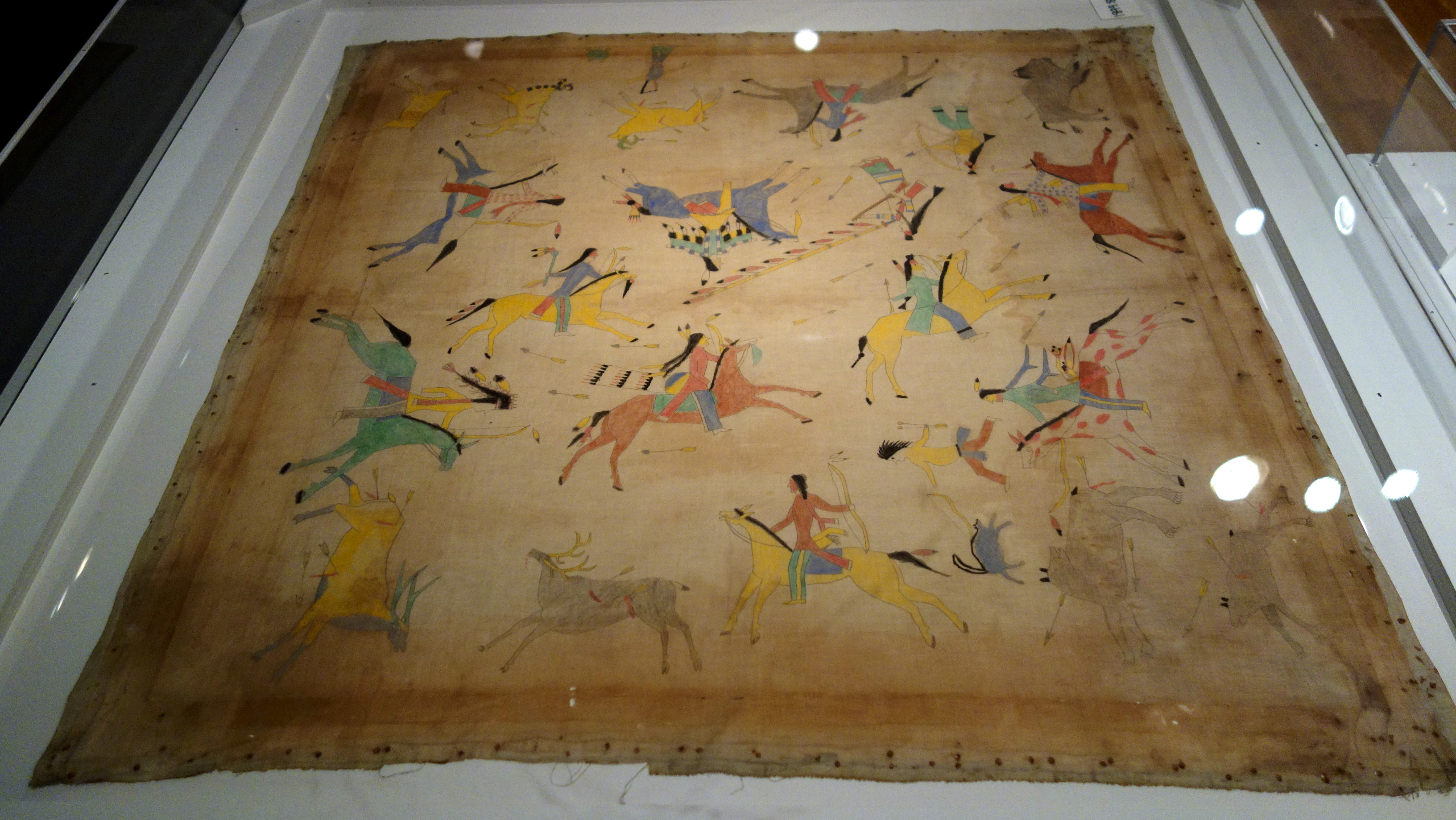 Exhibit in the Cincinnati Art Museum, Cincinnati, Ohio, USA. This artwork is in the public domain because the artist died more than 70 years ago.